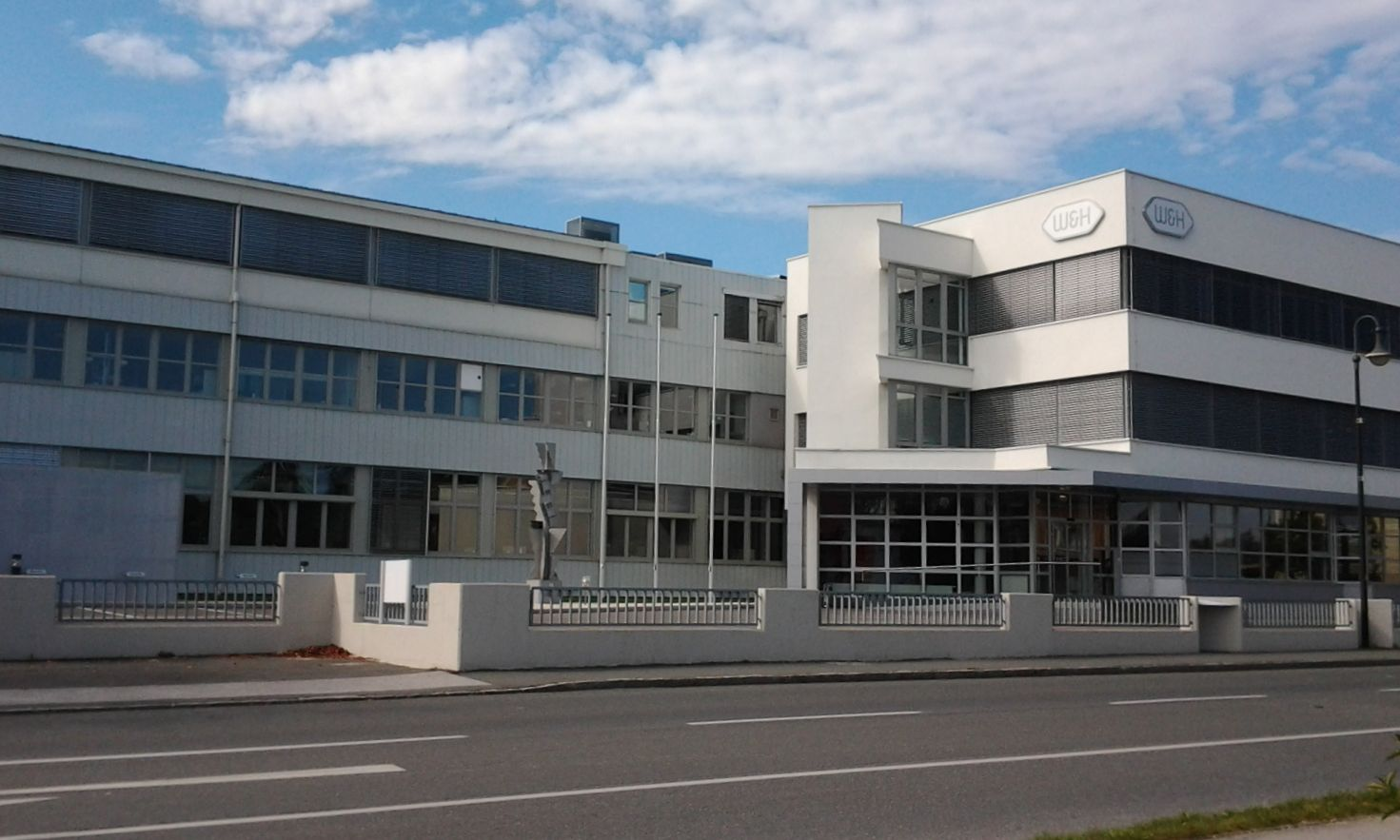 W&H Dentalwerk, Bürmoos, Austria, Building I - factory producing instruments for dental technology